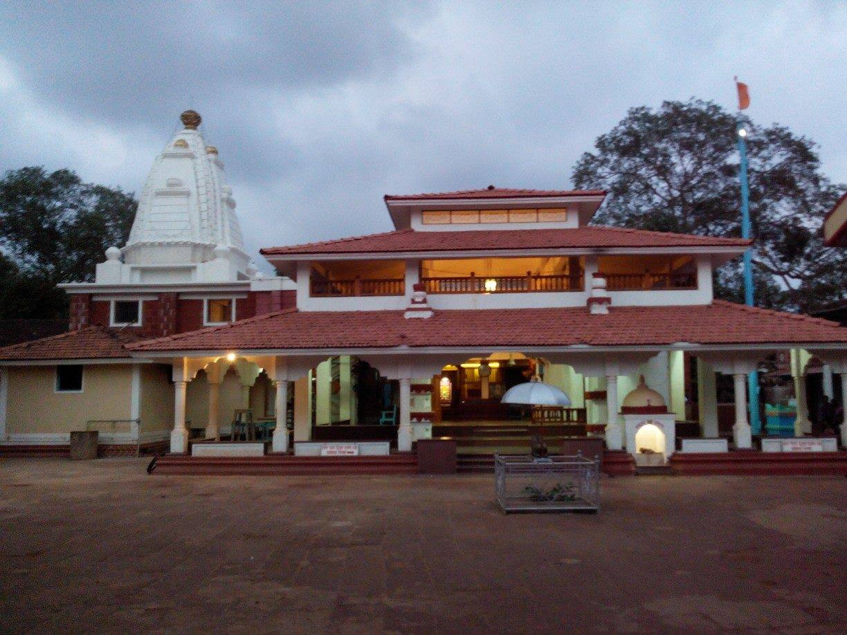 Outer view of Mahakali Temple, Adiware